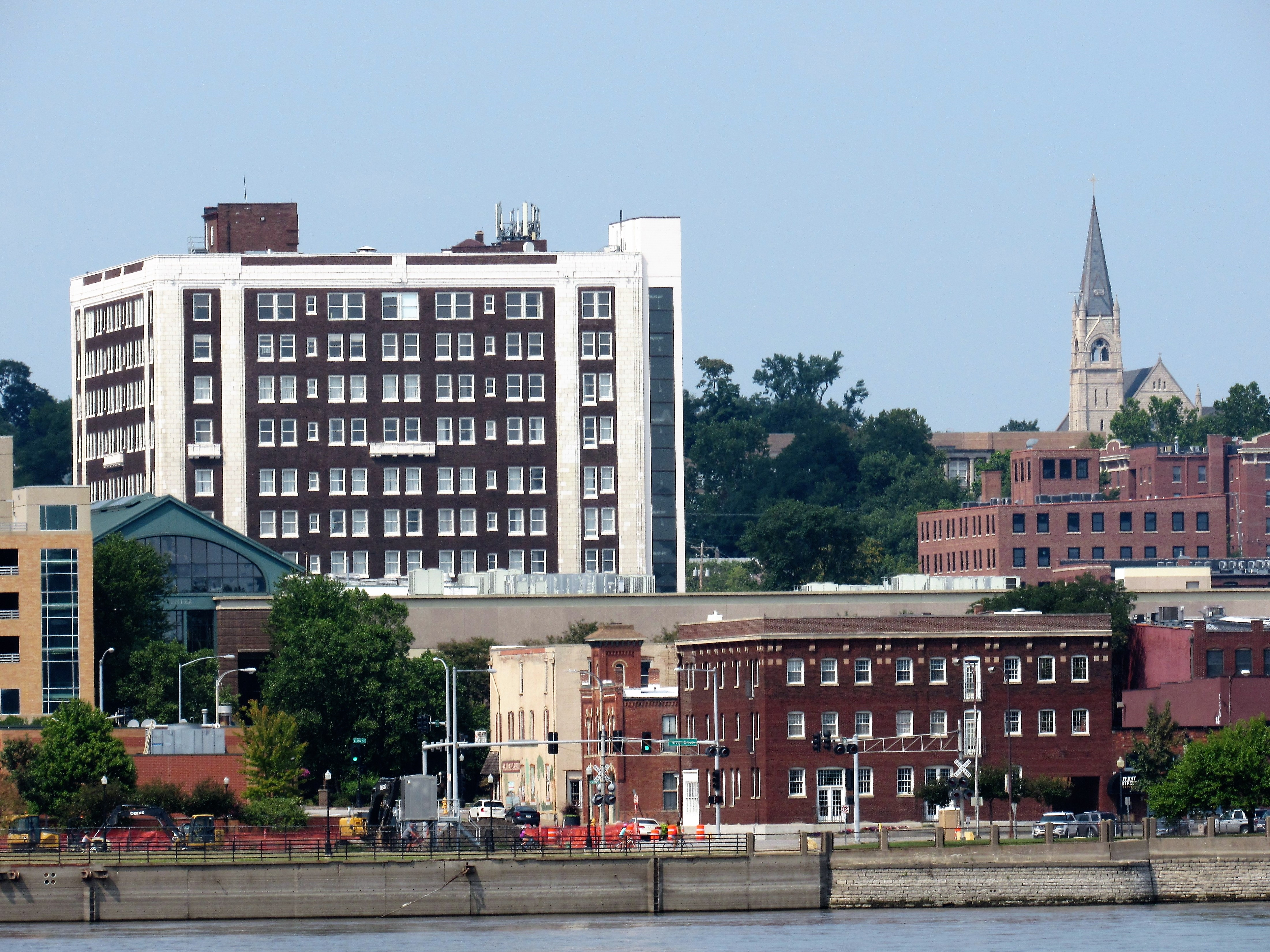 The east part of the downtown skyline of Davenport, Iowa from Rock Island, Illinois. The tall building is the Hotel Blackhawk and the church is Sacred Heart Cathedral.